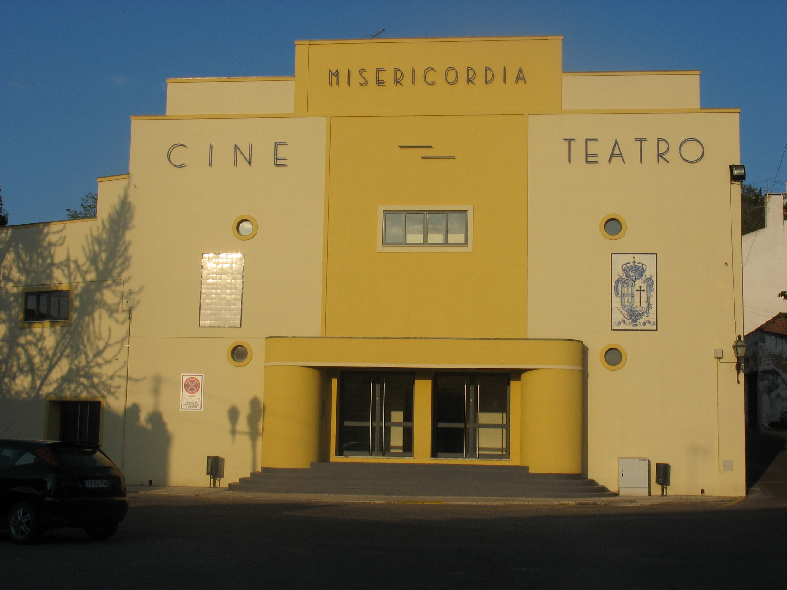 Chamusca (Portugal)- cine-theater